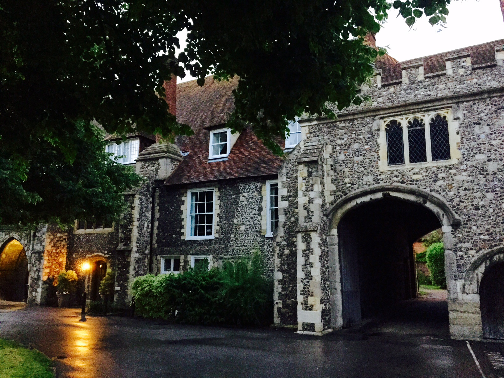 The Economics department is housed in the Priory block, which was originally built around 1100 as part of the medieval priory buildings, especially the brewery and bakehouse. It was later taken over by the King's School in 1936